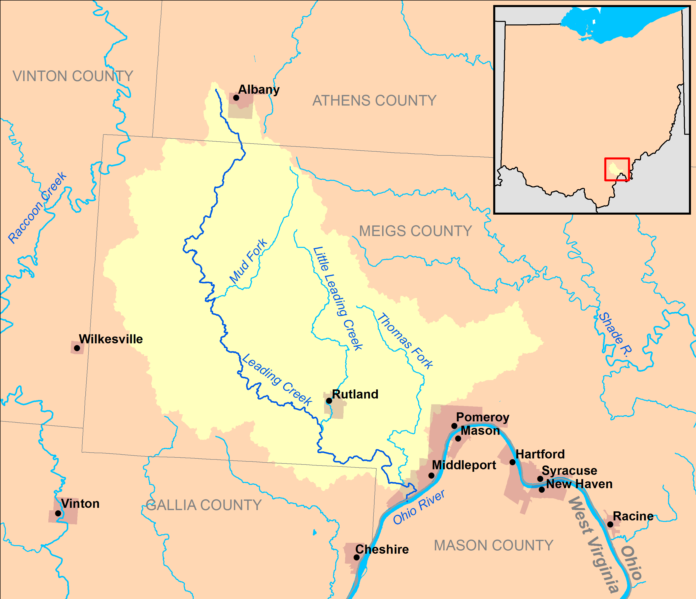 A map of Leading Creek and its watershed (USGS HUC-12 codes 050302020701, 050302020702, 050302020703, 050302020704, 050302020705, and 050302020706) in Meigs and Athens counties in Ohio.